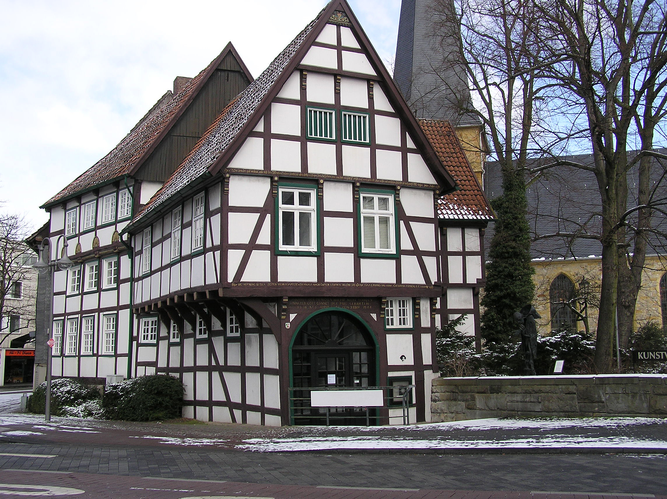 1649 built former warehouse House Verhoff at old church in Gütersloh, District of Gütersloh, North Rhine-Westphalia, Germany